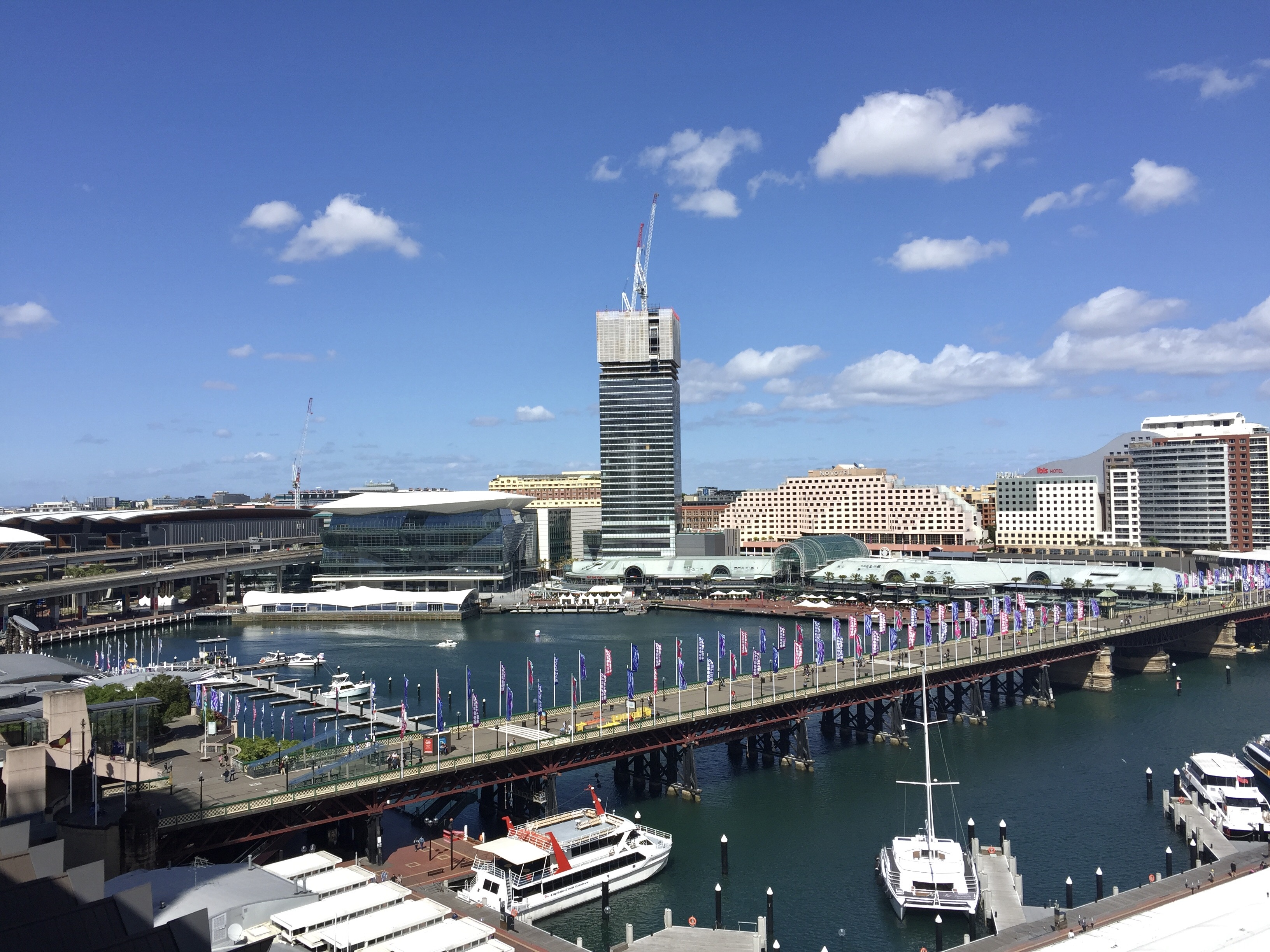 Darling Harbour seen from Four Points by Sheraton Sydney Darling Harbour